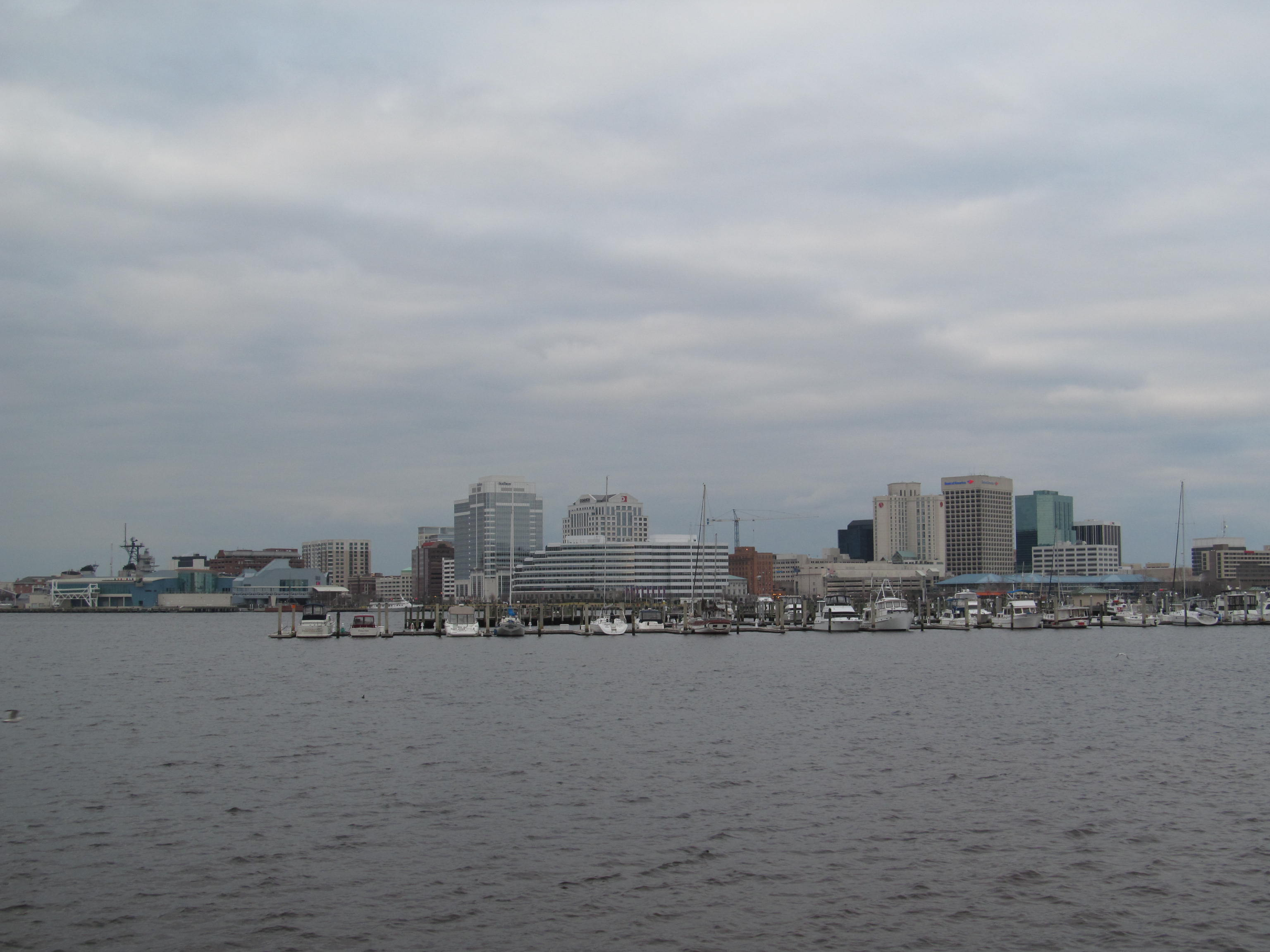 Portsmouth, Virginia